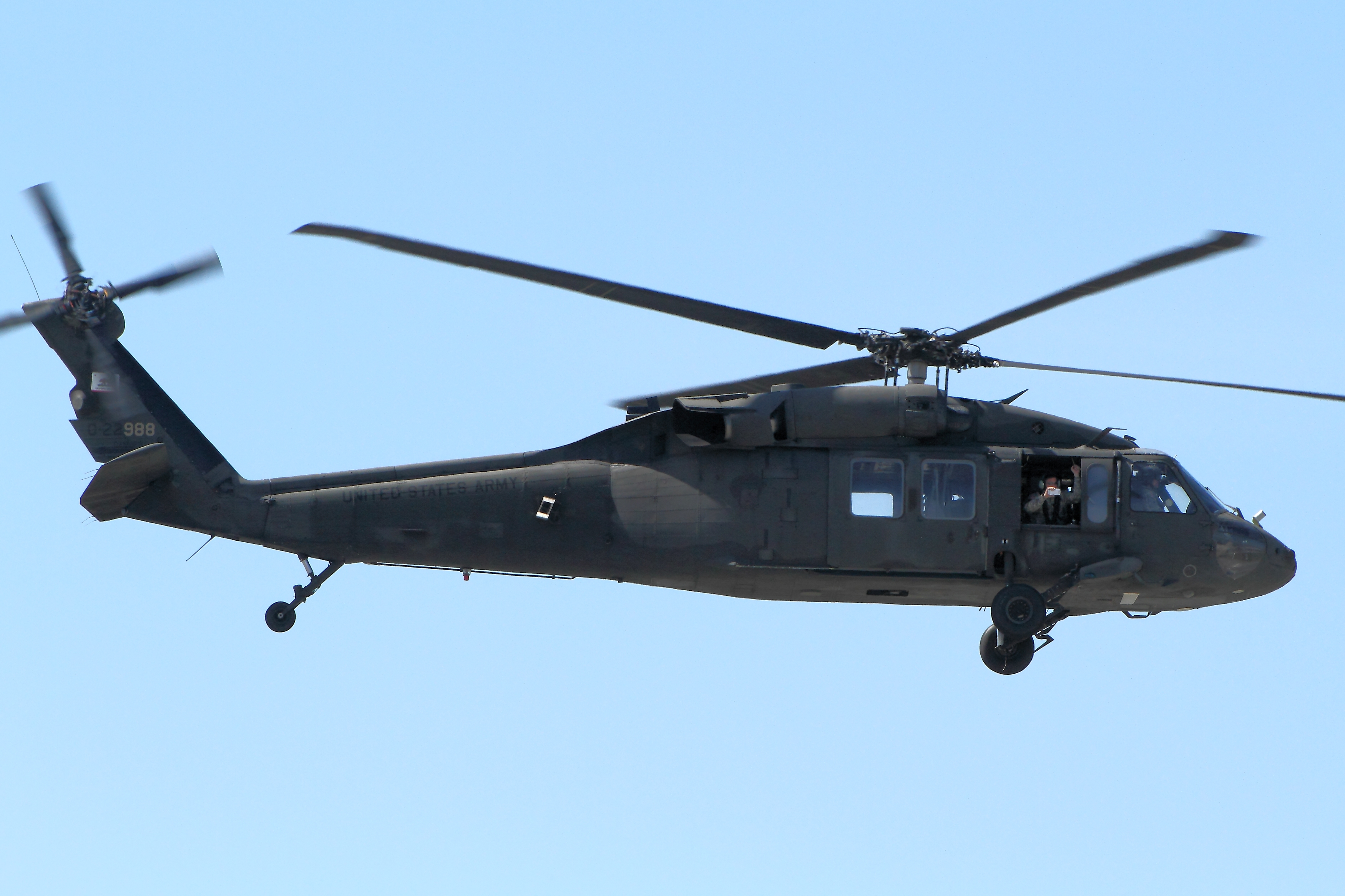 This just did a fly through before the airshow started, but it was great to see :-)